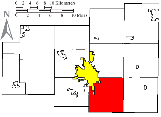 Made by the US Census and modified by myself to highlight the township